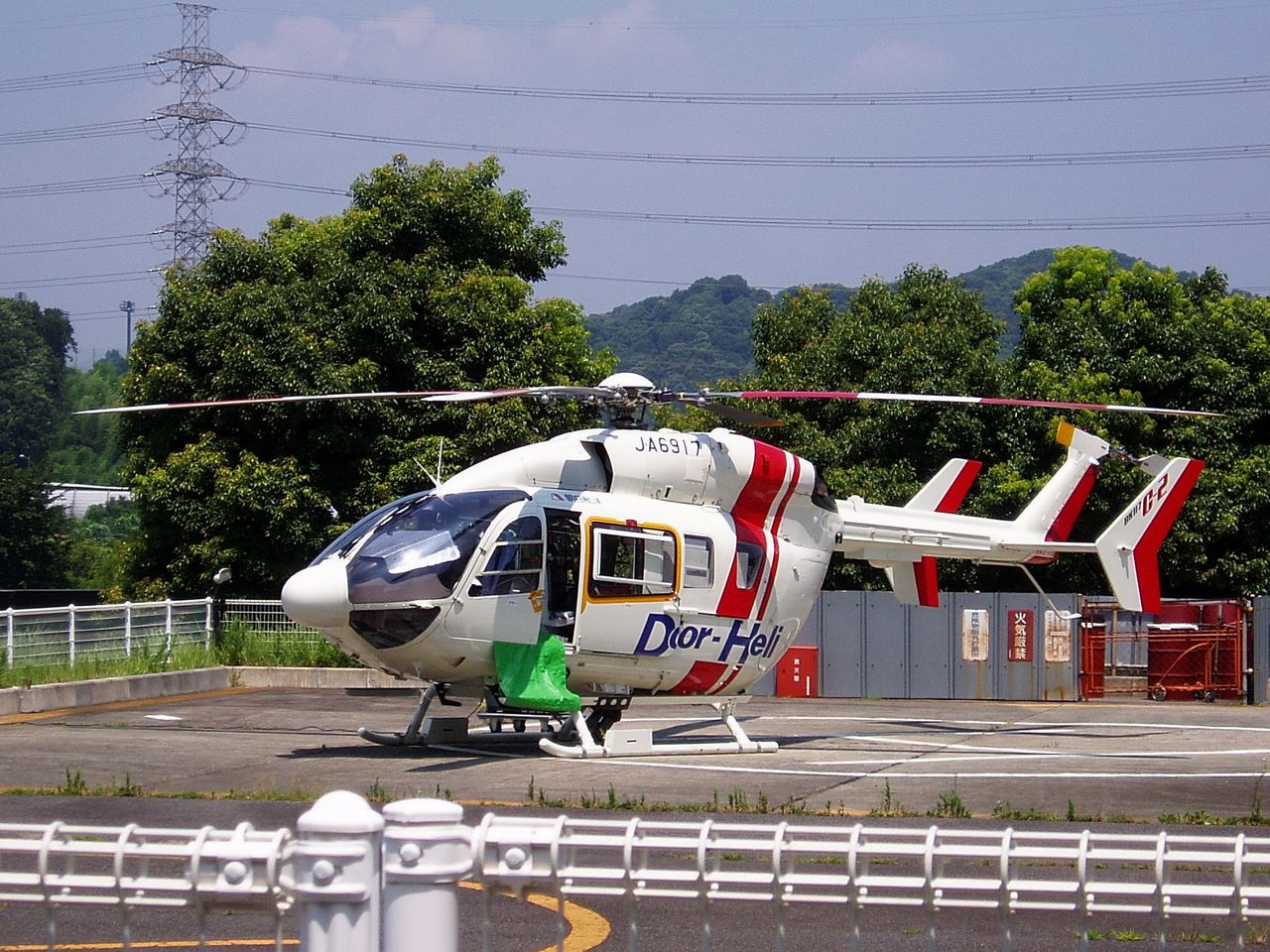 MBB/Kawasaki BK117C-2 (JA6917)